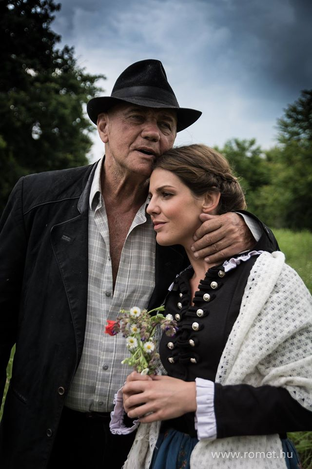 Gábor Koncz Gábor and Andrea Koncz in movie Földindulás